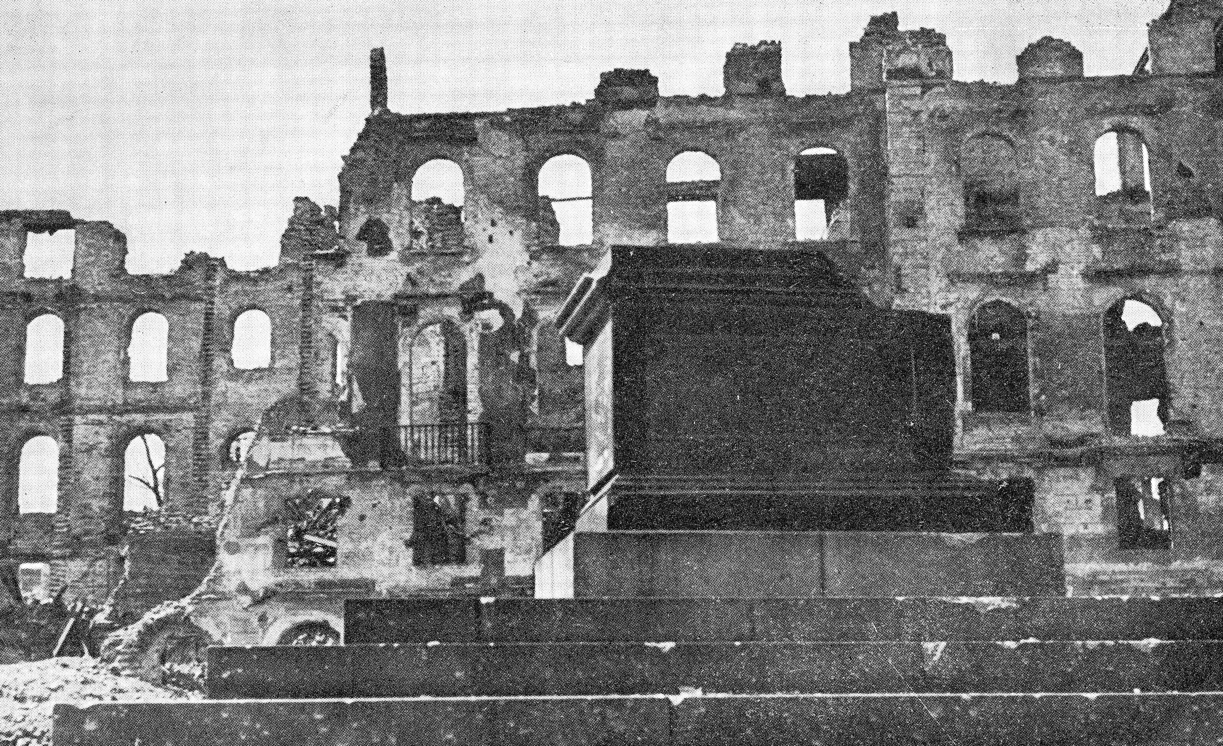 Destroyed monument to Nicolaus Copernicus in Warsaw